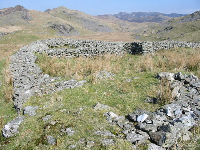 Bryn y Castell A small Iron Age hillfort that was excavated 1979-1985. Evidence of iron smelting has been found here.